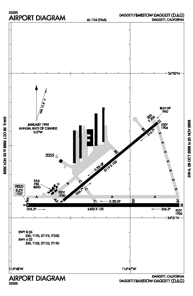 FAA airport diagram for DAG (Barstow-Daggett Airport) in California, United States.